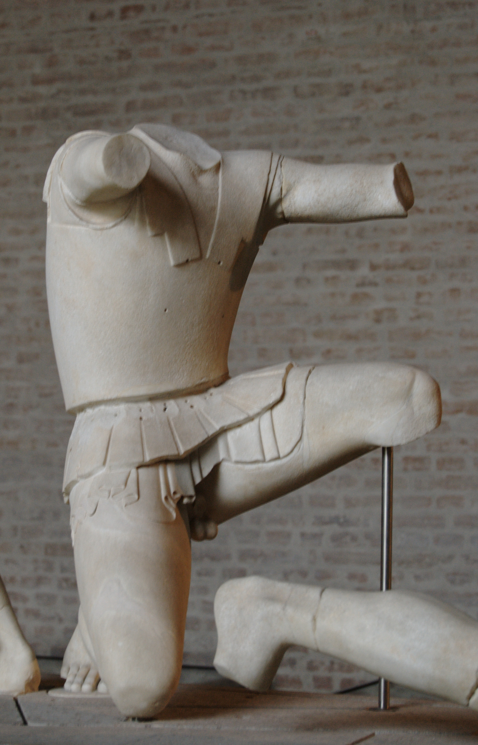 Greek archer (so called “Teucer”), figure W-IV of the west pediment of the Temple of Aphaia, ca. 505–500 BC.